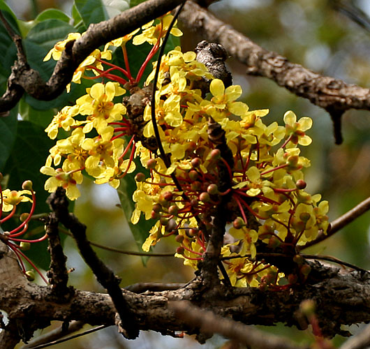 Dillenia pentagyna at Jayanti in Buxa Tiger Reserve in Jalpaiguri district of West Bengal, India.